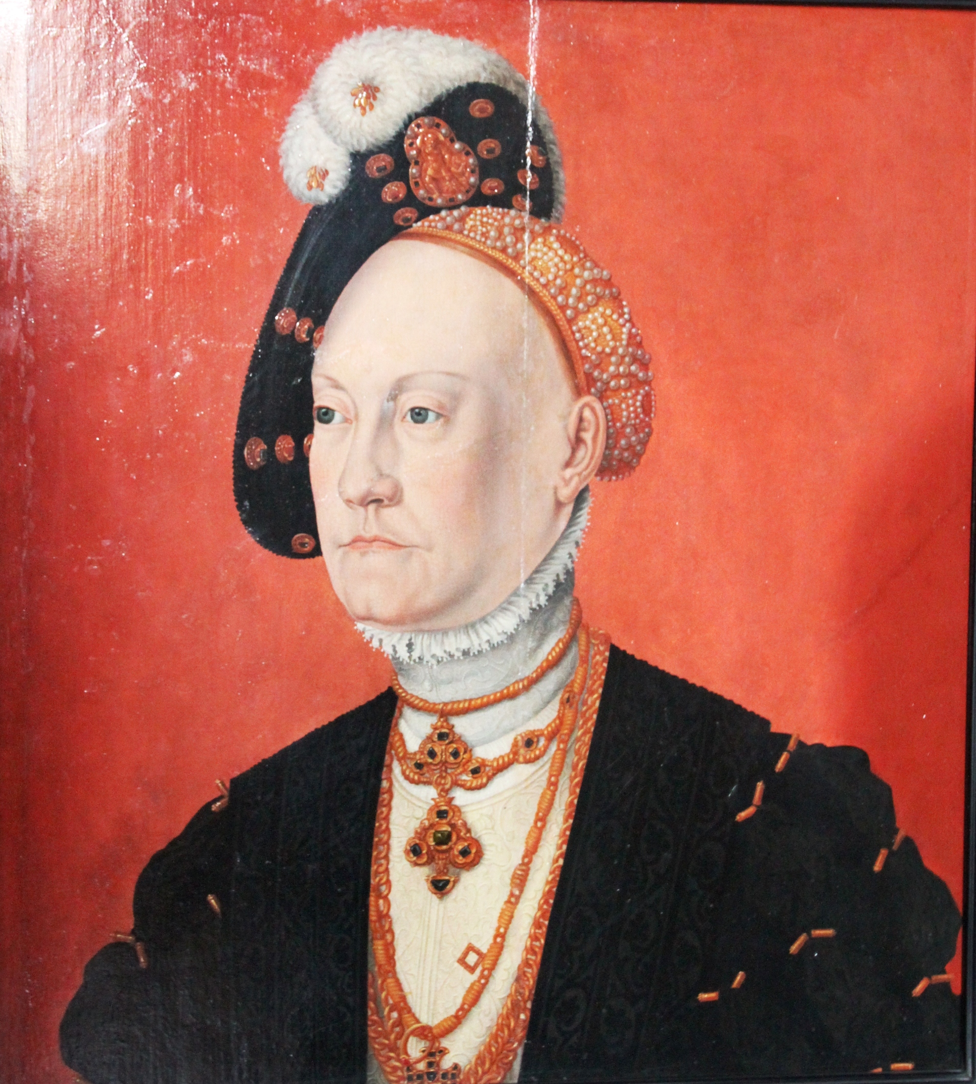 Painting by an unknown artist, of queen Dorothea of Denmark (1511-1571). Displayed in Frederiksborg Castle, Denmark.